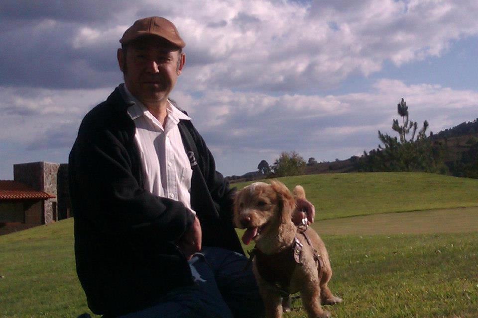 José Silva Villalever